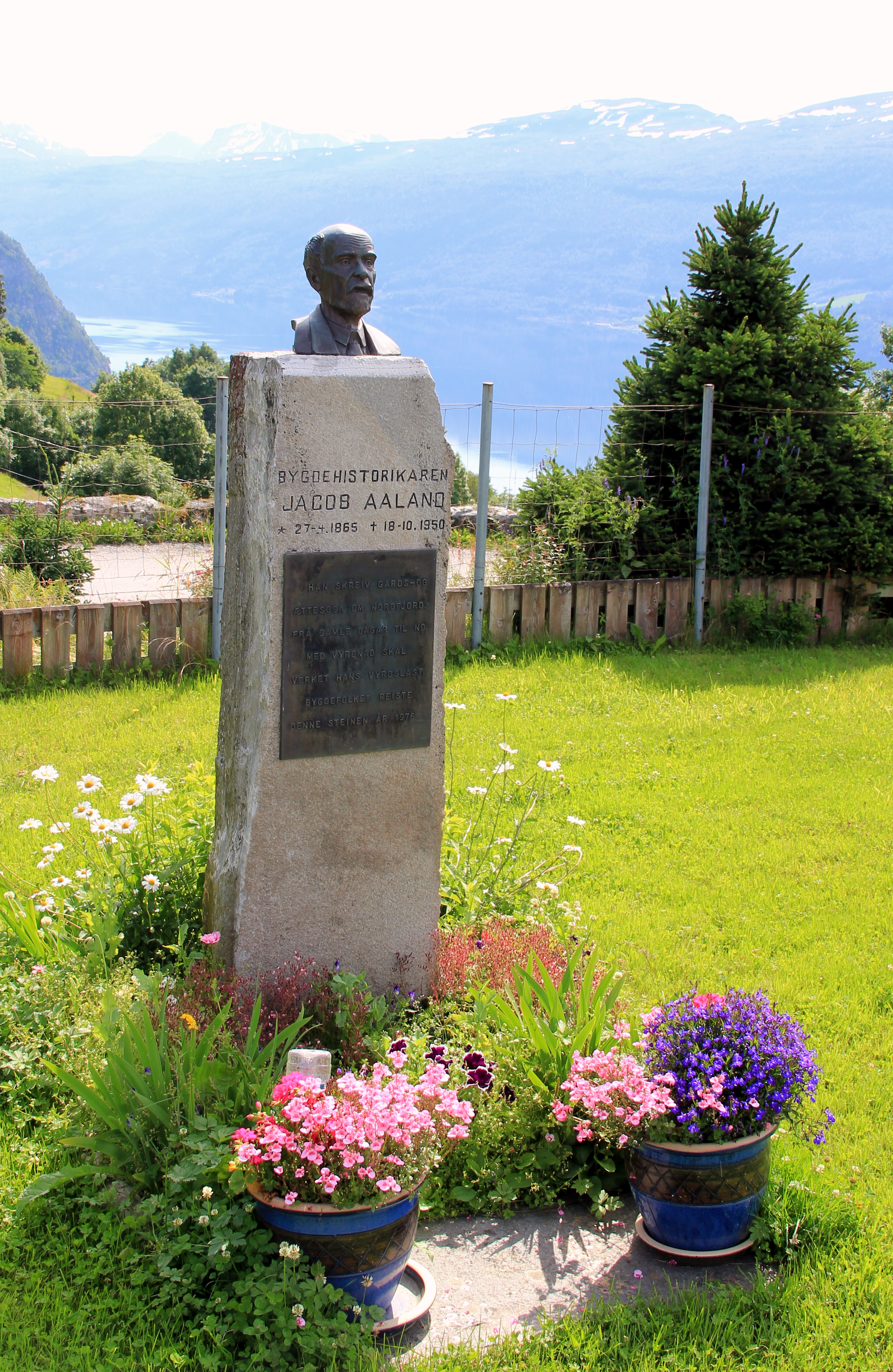 Memorial bust of Jakob Aaland